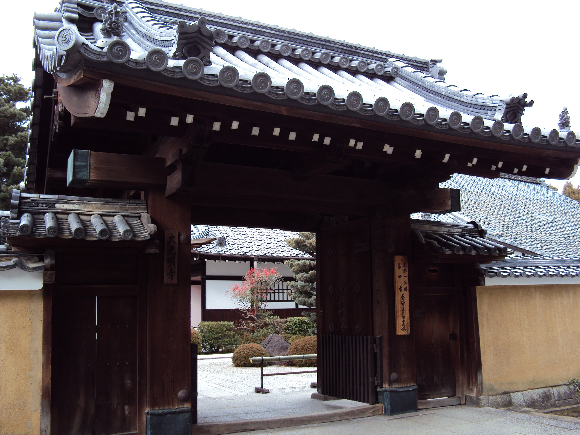 Daikomyo-ji, Kyoto, Japan